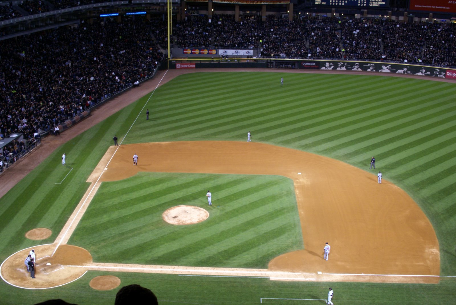 The 2008 MLB AL Central Tiebreaker Game was played by the Minnesota Twins against the Chicago White Sox on 9-30-08 at US Cellular Field in Chicago. The White Sox defeated the Twins 1-0 and secured a place in the playoffs.